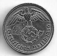 10 Reichspfennig 1939